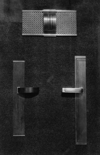 Door handles made by French locksmith Louis Gigou.